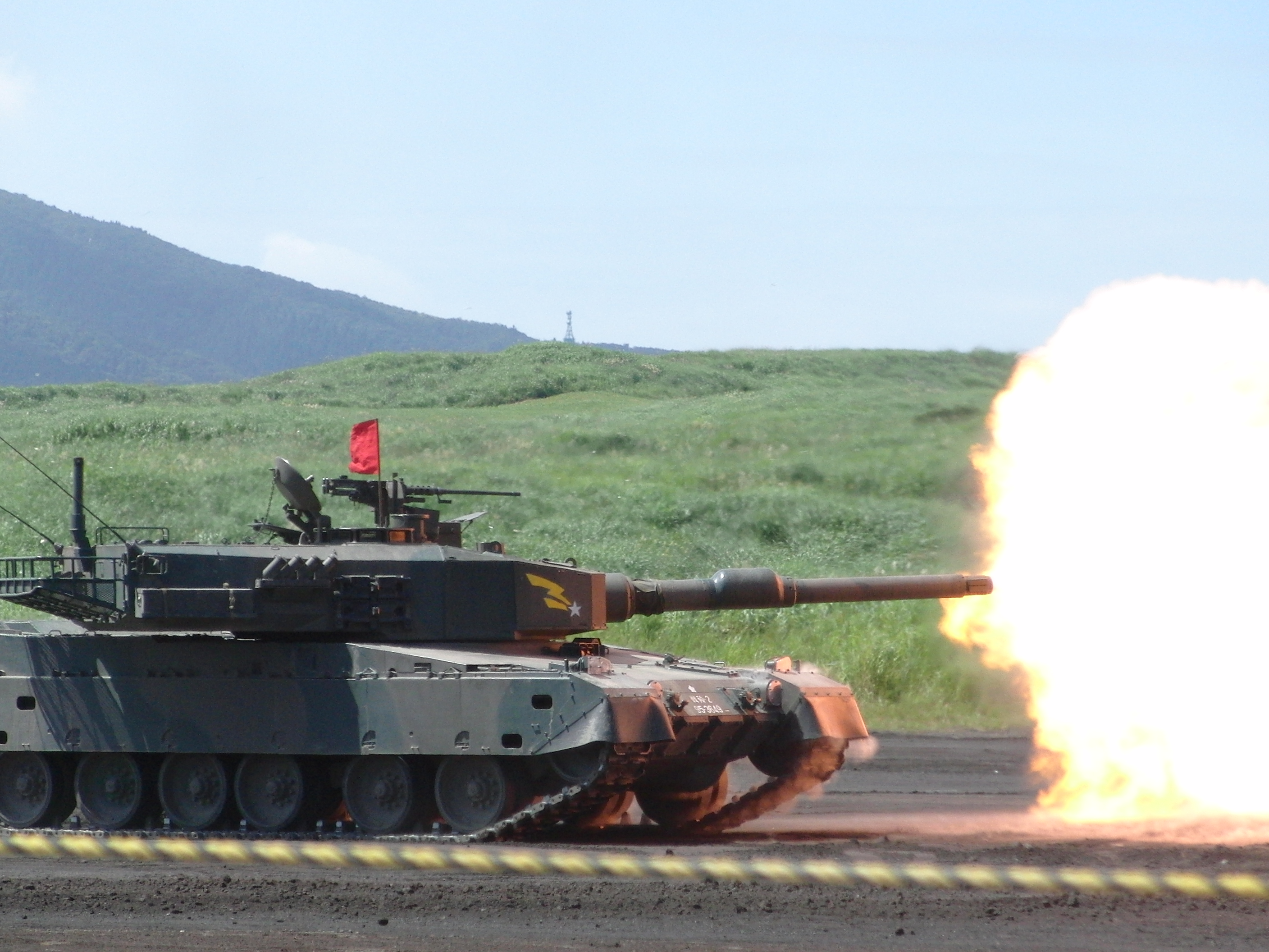 A Type 90 tank fires on a practice day of the Fuji Firepower Review 2009.